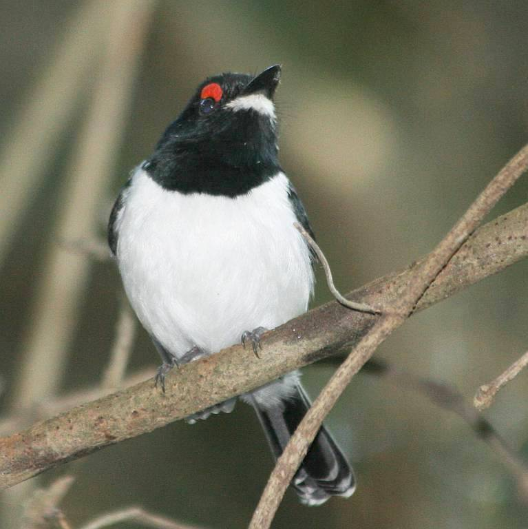 Female Black-throated Wattle-eye (Platysteira peltata) at Umhlanga, KwaZulu-Natal, South Africa.